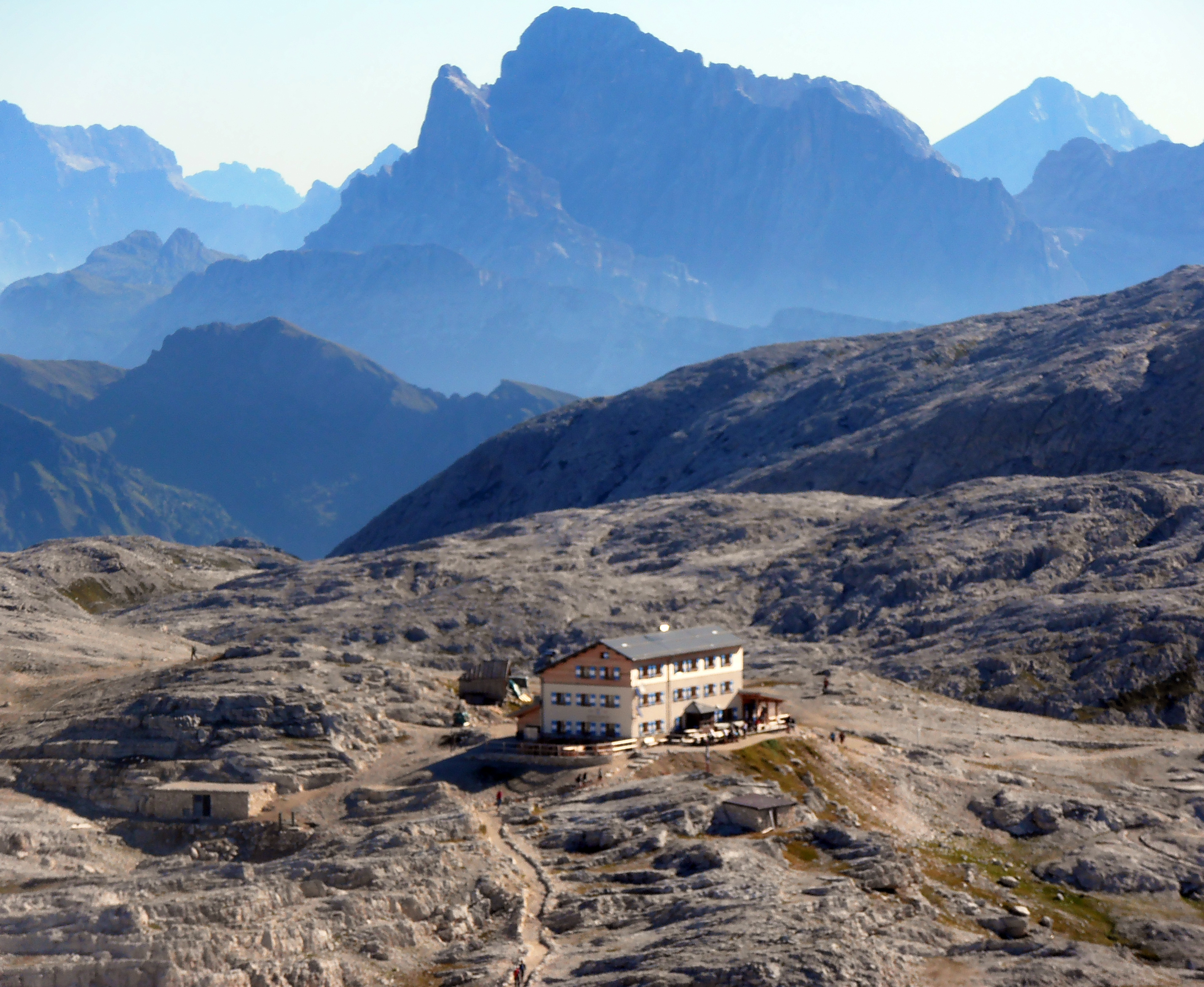 Rifugio Rosetta from SW